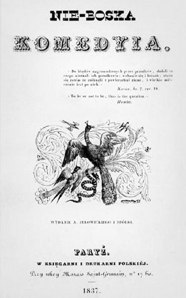 Cover of the drama The Undivine Comedy (1837 edition)